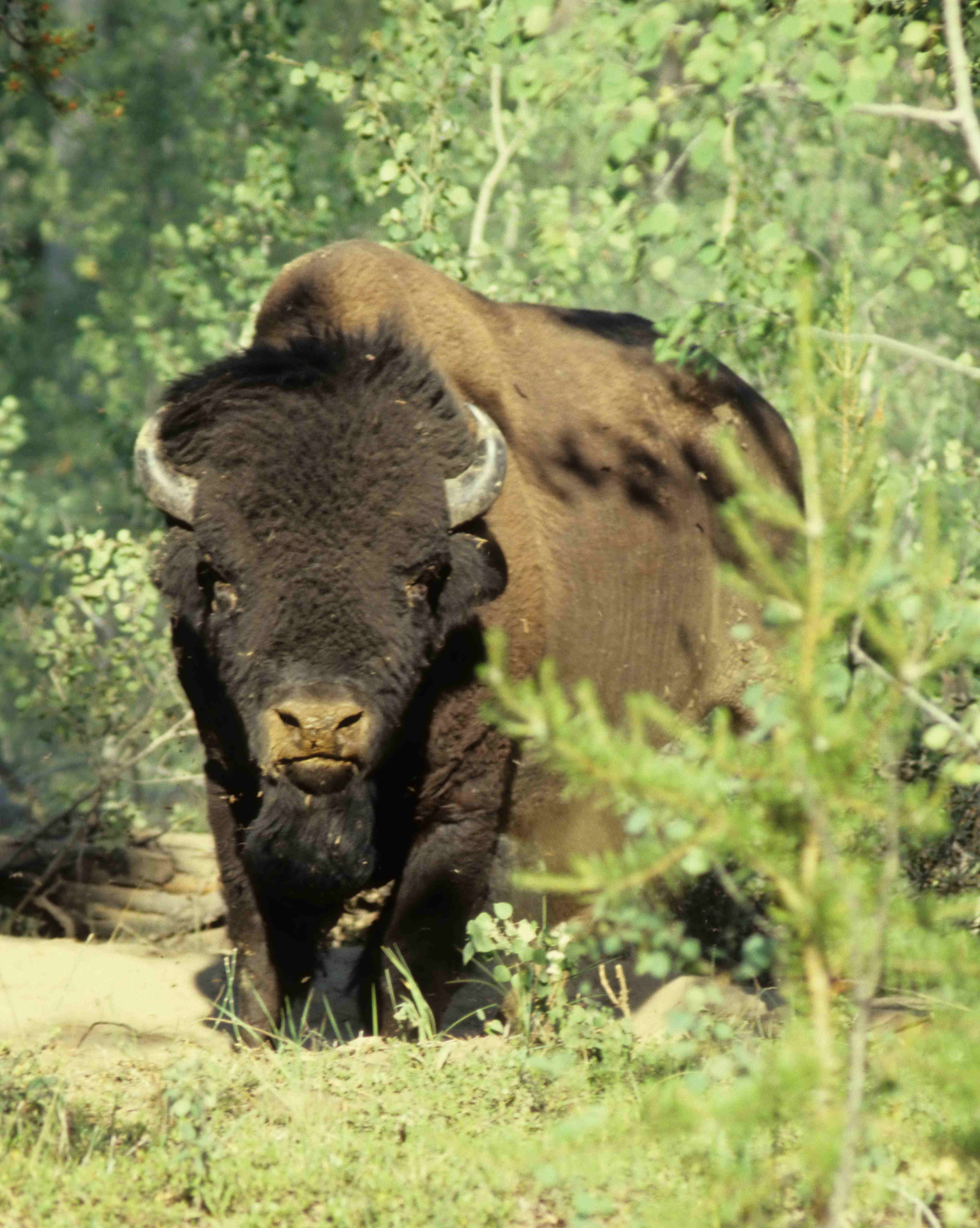 Description: Curious Wood Buffalo (Bison bison athabascae), Wood Buffalo National Park, Canada Source: photo taken by Ansgar Walk Date: 1998-July-02 Author: Ansgar Walk Permission: Ansgar Walk put it under the CC-BY-SA